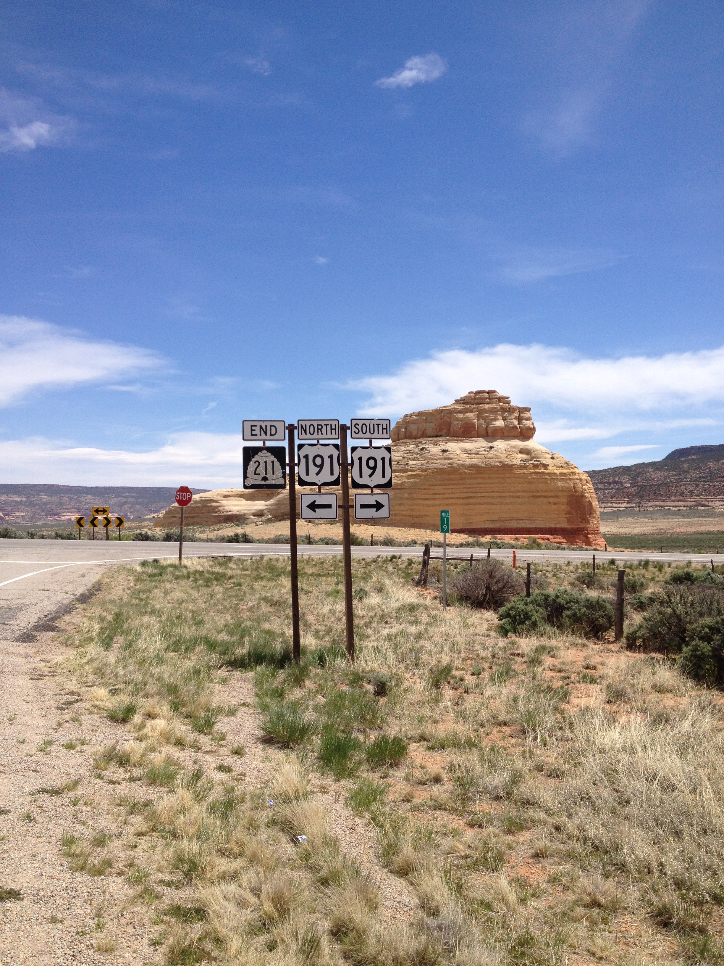 Highway markers at UT 211/ US 191 intersection near Canyonlands National Park.